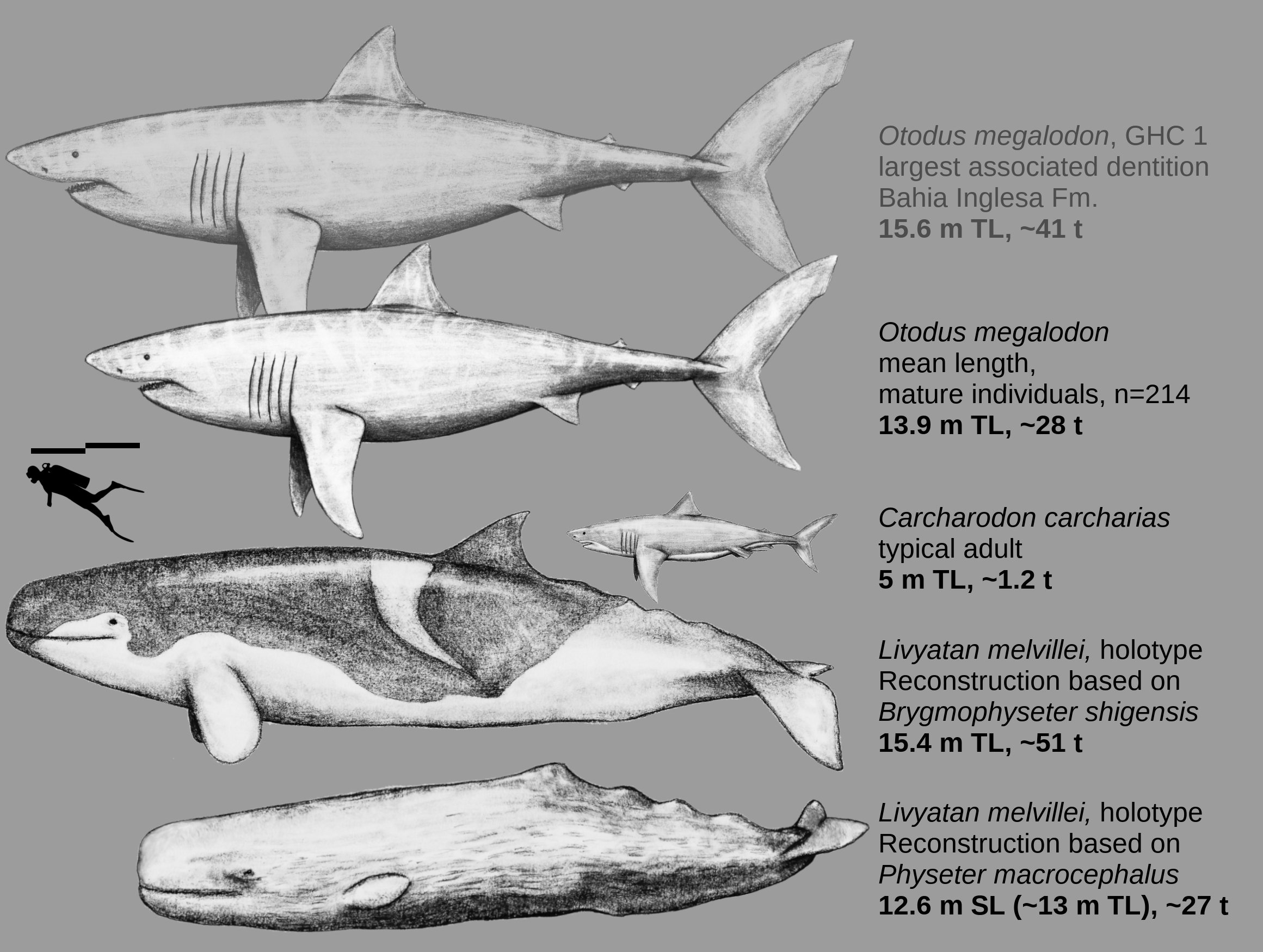 Size comparison between two possible restorations of the stem physeteroid L. melvillei and the Lamniform C. megalodon Sources are detailed here: and here